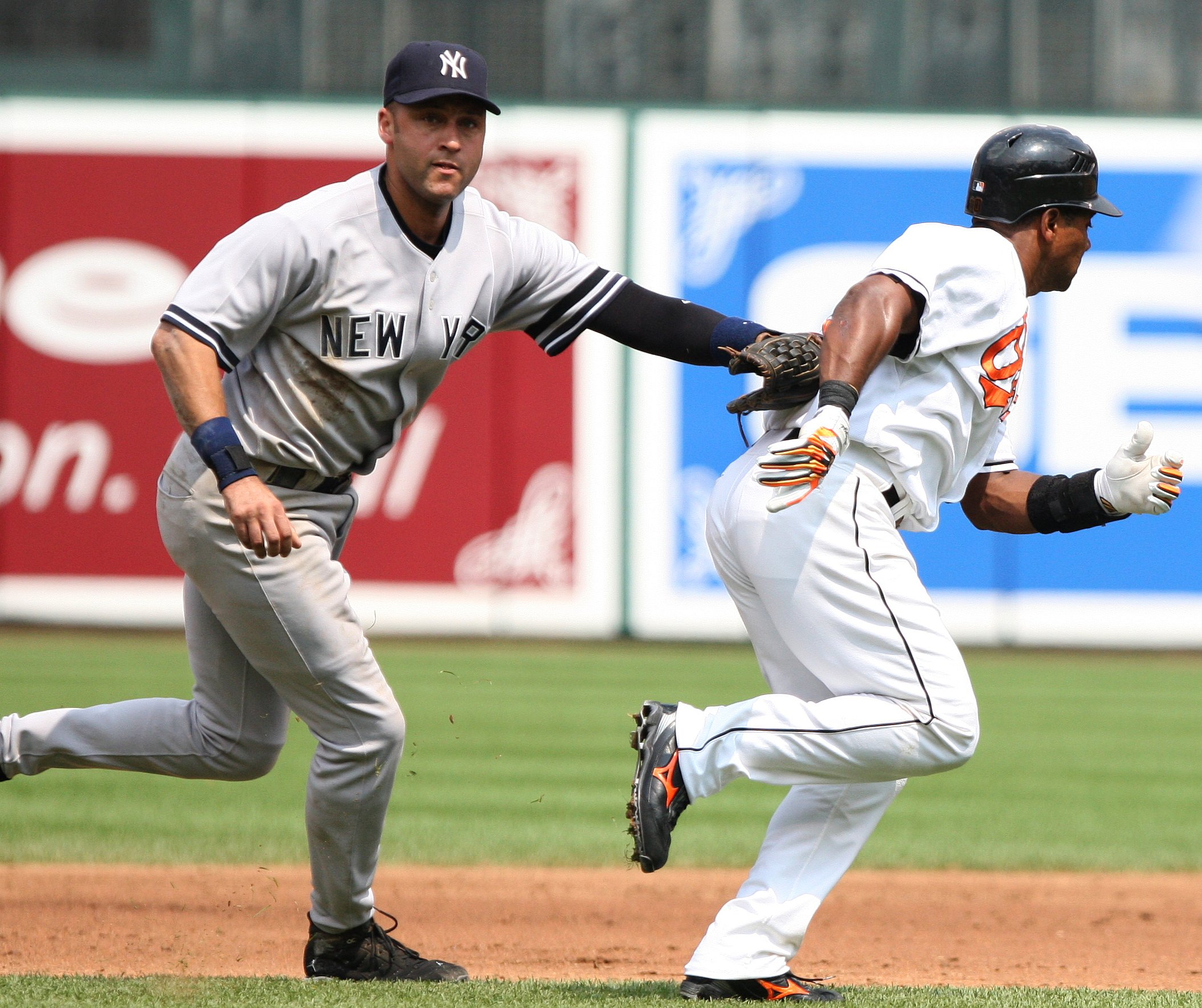 New York Yankees Derek Jeter tags out Miguel Tejada between first and second base against the Baltimore Orioles on Sunday July 29, 2007 at Camden Yards in Baltimore.